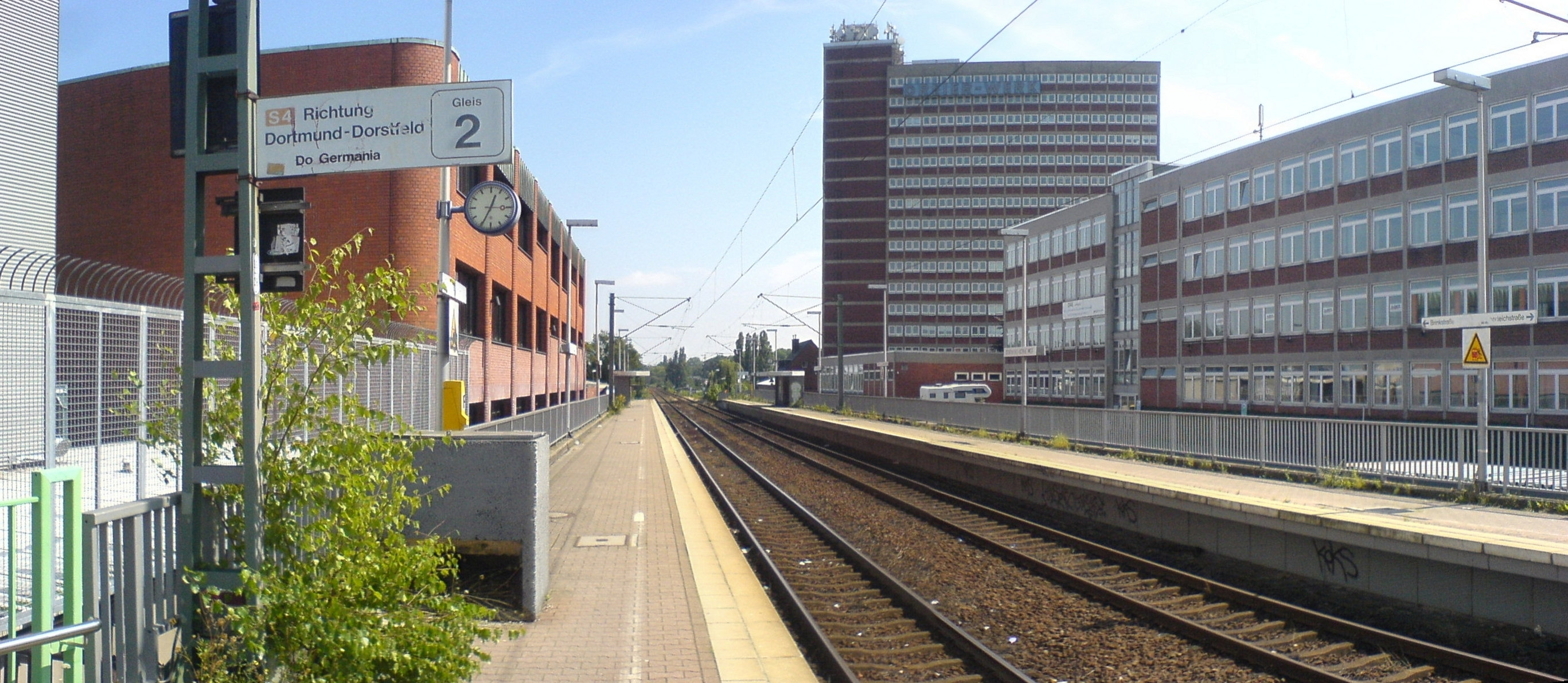 Bahnhof Dortmund-Körne West This panoramic image was created with Autostitch. Stitched images may differ from reality.